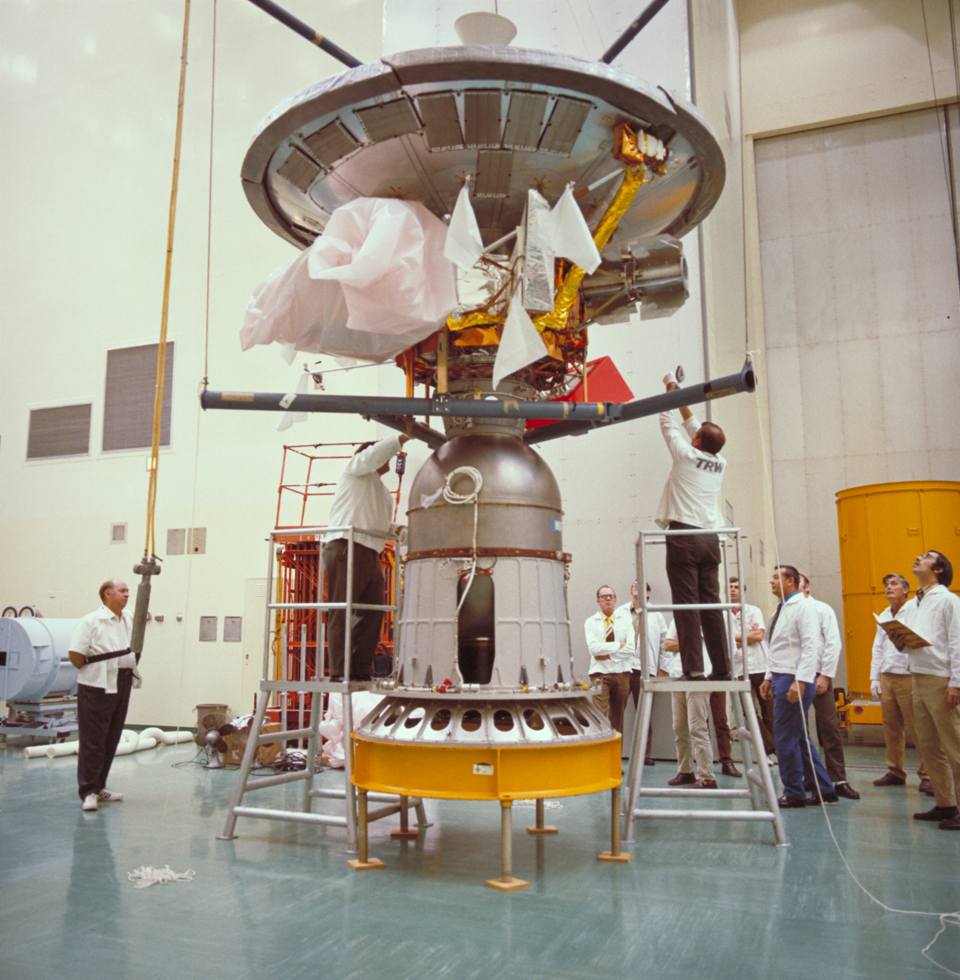 Pioneer F (Pioneer-10) spacecraft delivered to NASA at Cape Kennedy from TRW.